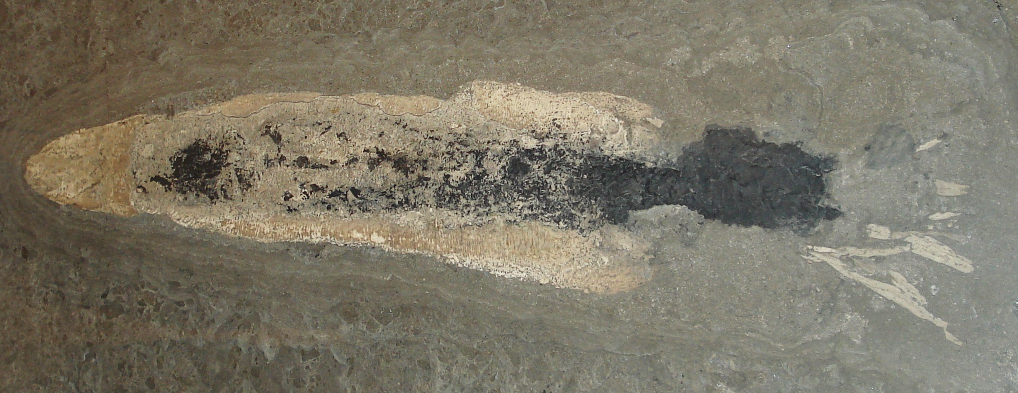 fossil of Loligosepia.